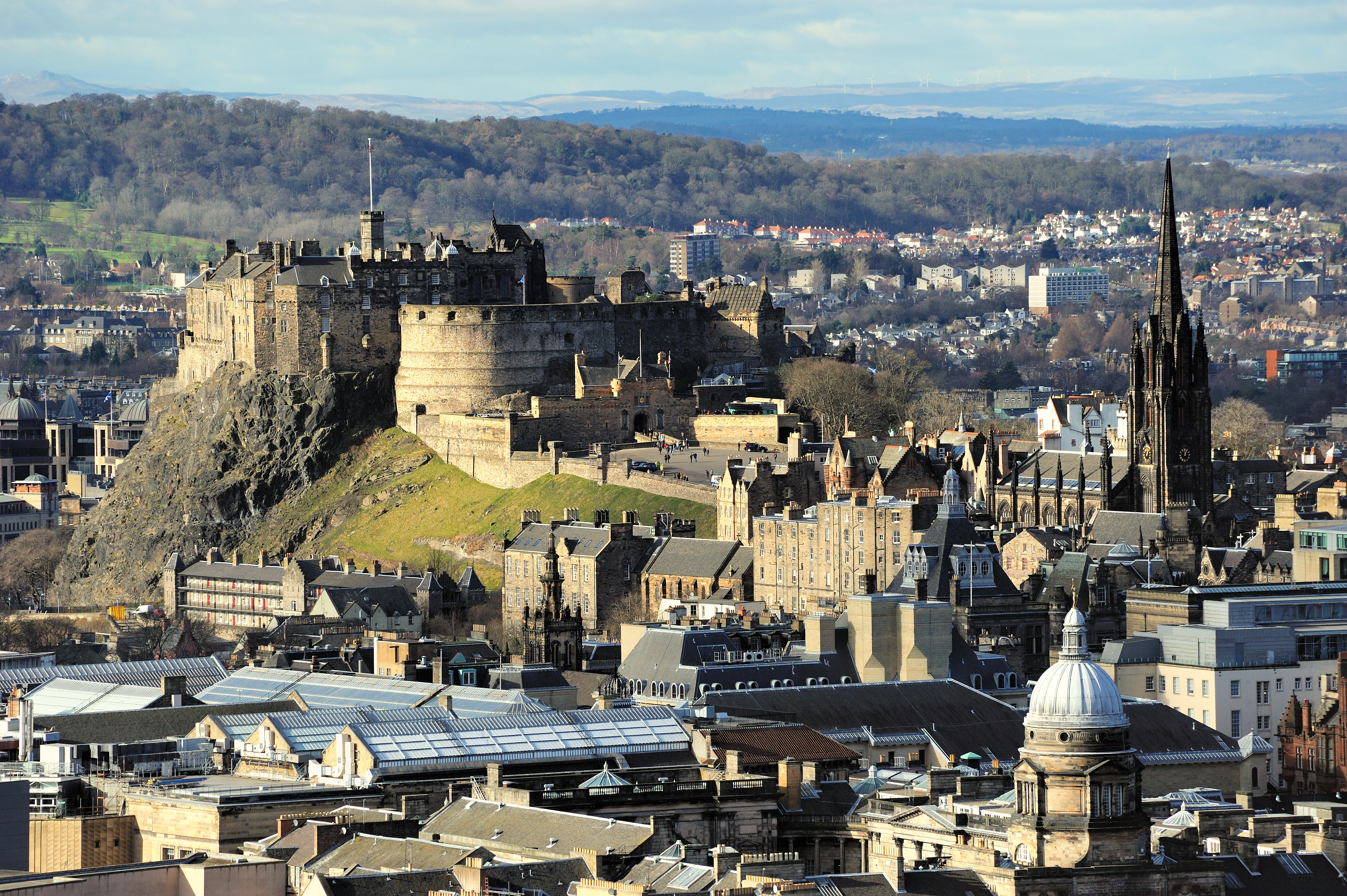 Edinburgh Castle is situated on top of an ancient volcano that allows it to dominate the city skyline even today. Edinburgh Scotland, UK